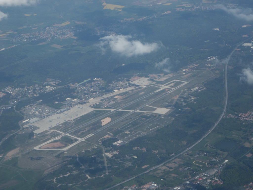 Ramstein Air Base as seen from above